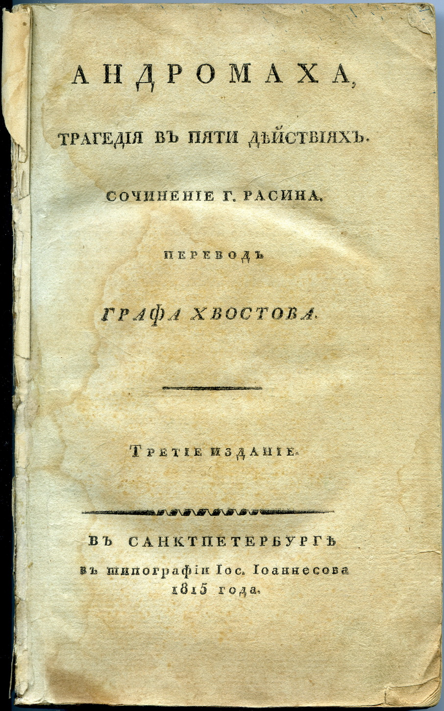 Titul of Dmitry Khvostov (1757-1835) book (translation, 3rd edition). The book dimensions: Width - 123 mm, Hight - 230 mm, Depth - 23-25 mm; 287 pages.